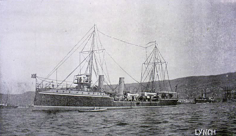 Torpedo boat Patricio Lynch of the Chilean army